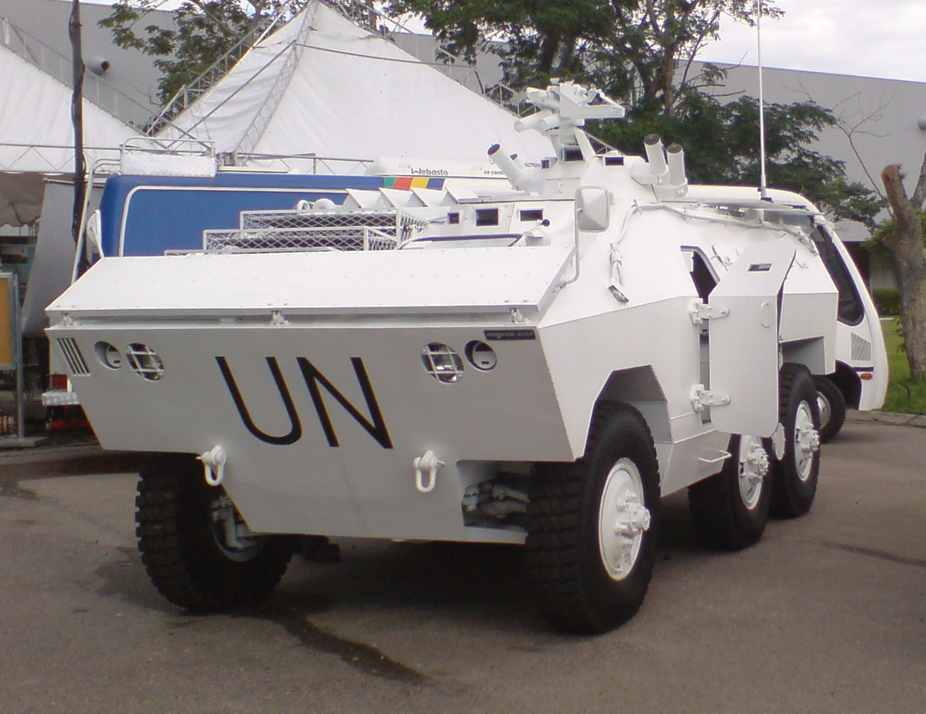 Brazilian Army's EE-11 URUTU painted in UN color markings for the MINUSTAH peacekeeping operations in Haiti.